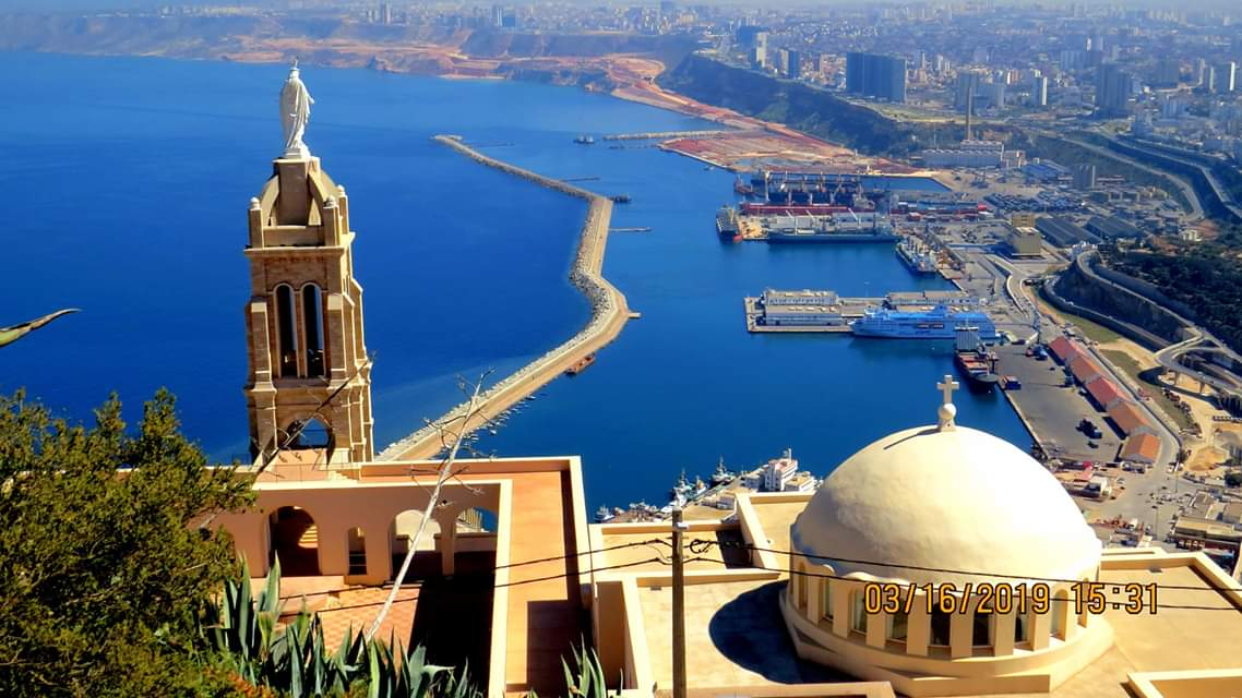 A small chapel, known as the Chapel of Santa Cruz, Oran. This chapel has been refurbished with a tower, which has a huge statue of the Virgin Mary, said to be a replica of that at Notre-Dame de la Garde in Marseilles, styled as Notre-Dame du Salut de Santa Cruz.